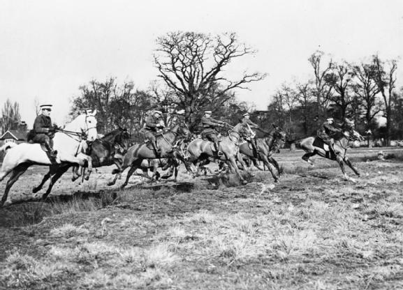 Officer of the 1st County of London Yeomanry (Middlesex, The Duke of Cambridge's Hussars) charge during training in Richmond Park on 10th February 1915.